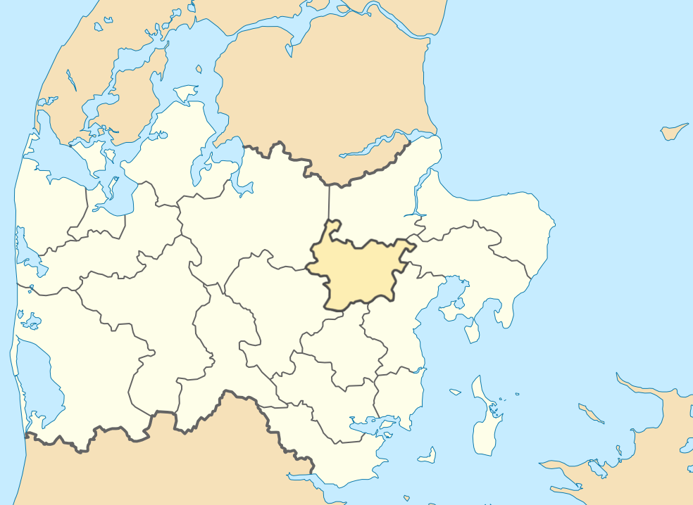 Position of Favrskov Municipality